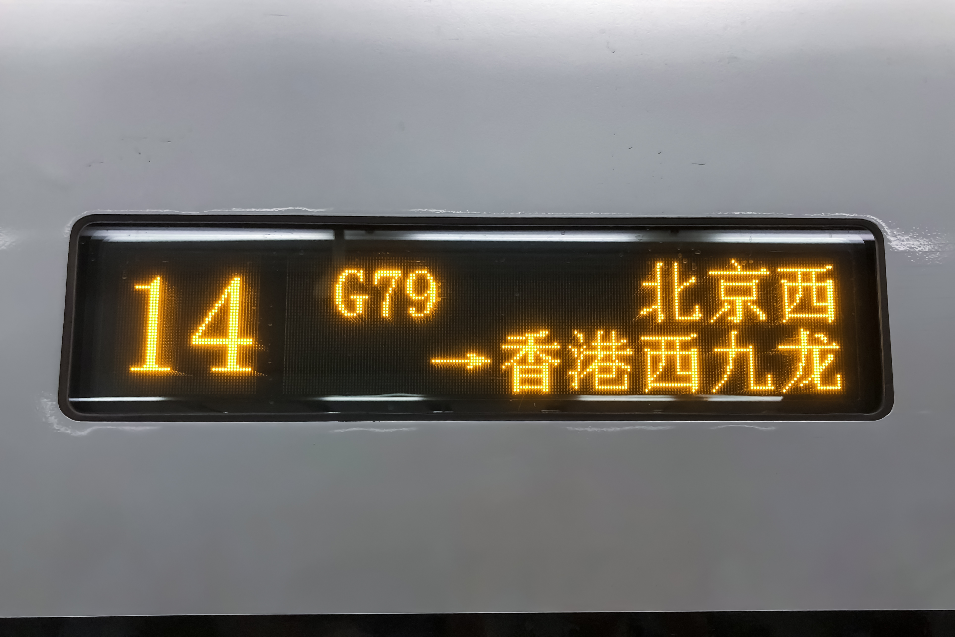 Car 14 has so many passengers who are bound for Hong Kong.